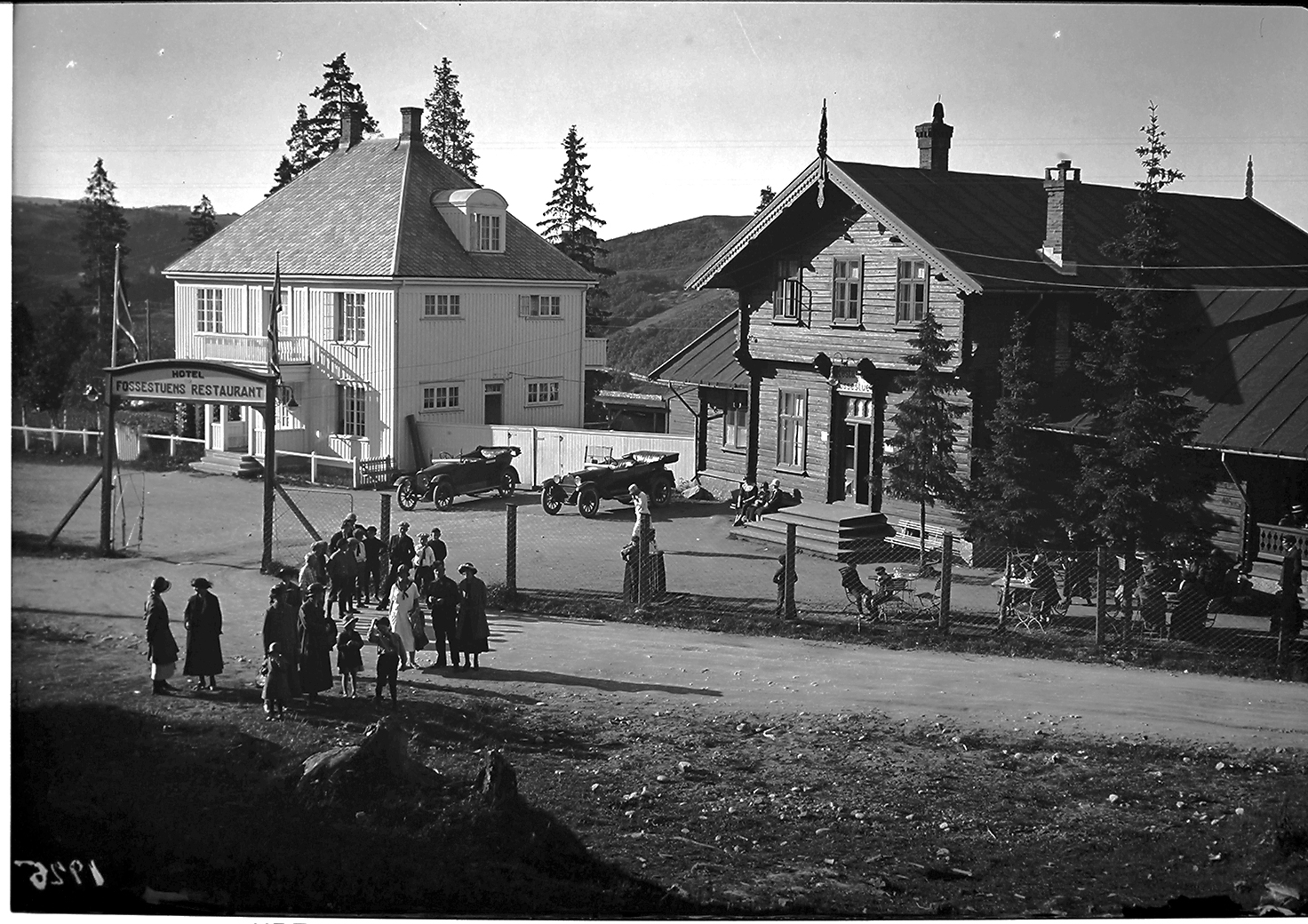 Fossestuen (the house by the waterfalls) was a popular restaurant in the outskirts of Trondheim, Norway. The building was damaged in a fire in 1930. A new building was later erected on the same site, but in a modernist style